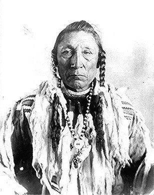 Curley Bear (Car-io-scuse), a Blackfoot (Siksika) chief; half-length, dressed in ermines.